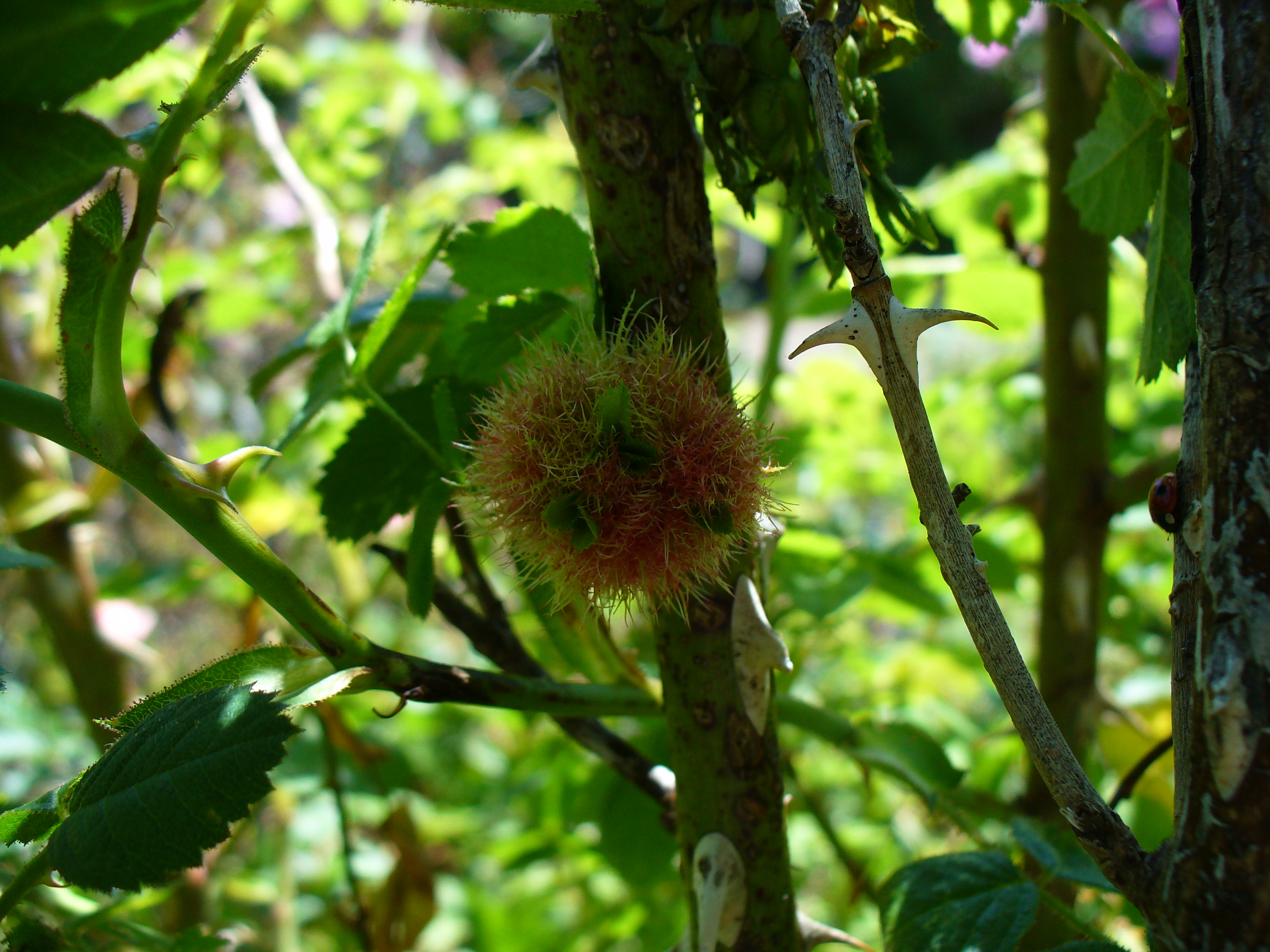 I am the originator of this photo. I hold the copyright. I release it to the public domain. This photo depicts something hairy.